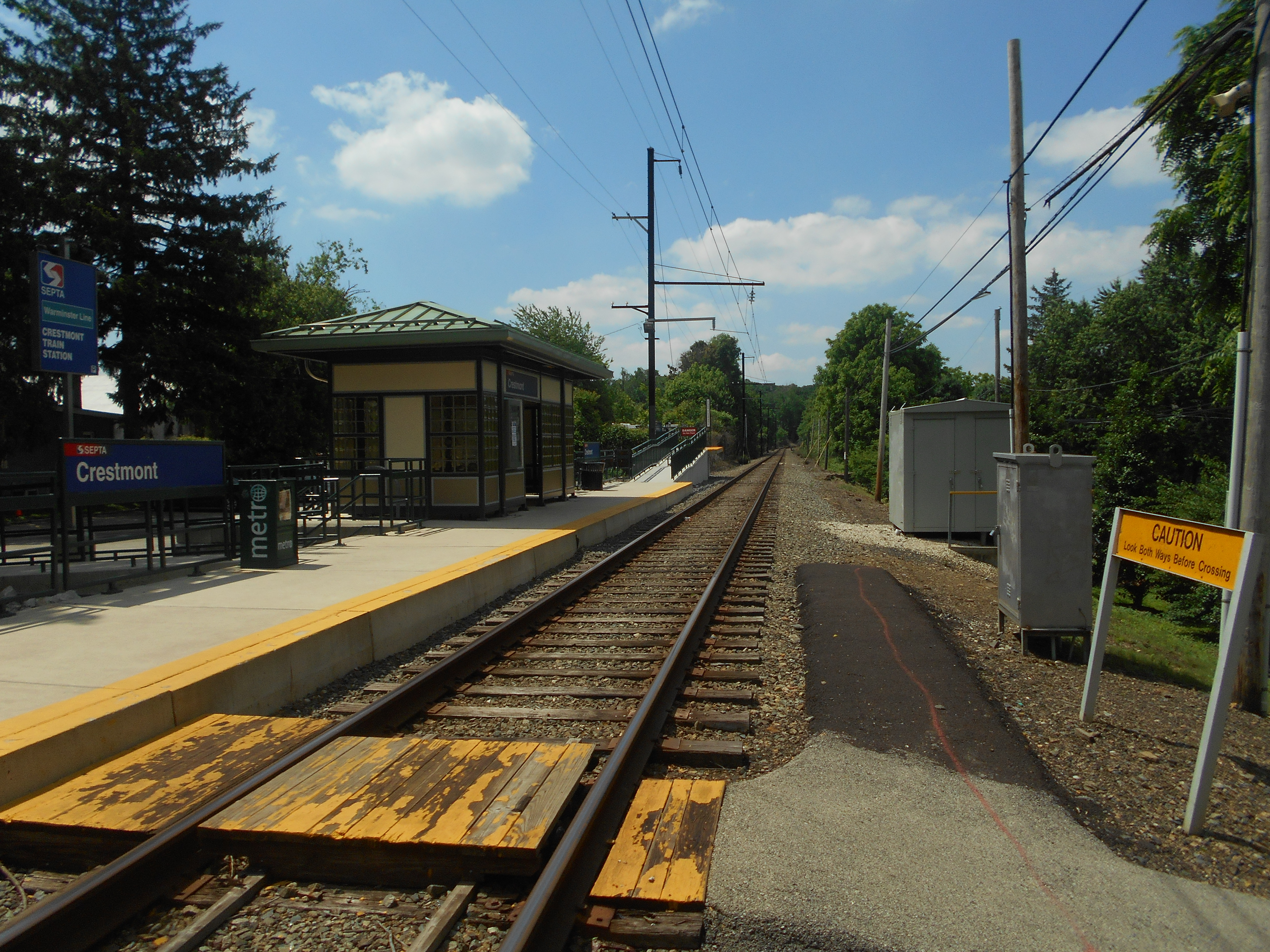 The Crestmont SEPTA Regional Rail station in Crestmont, Pennsylvania.